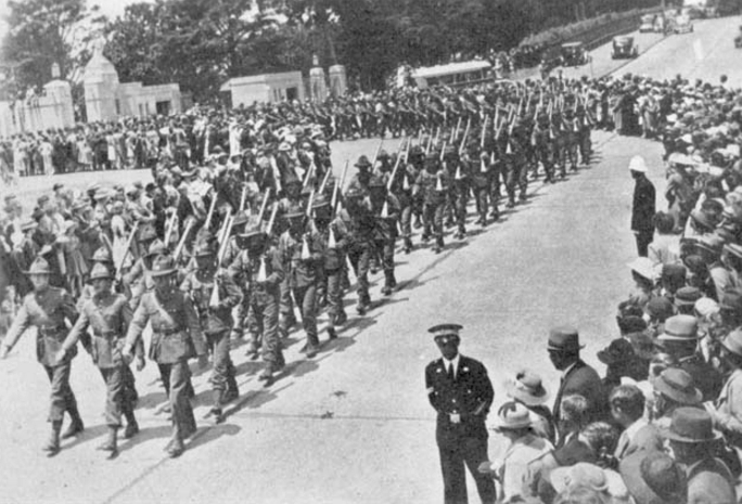 Divisional Cavalry regiment marching in Auckland